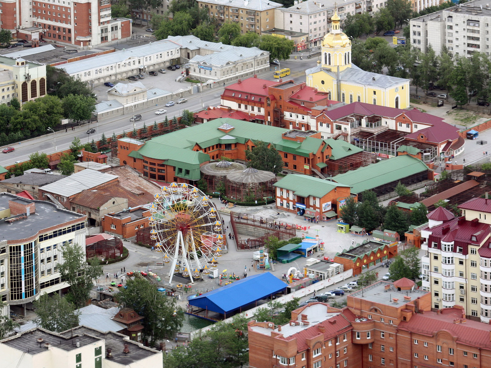 Yekaterinburg Zoo. View from Anthea